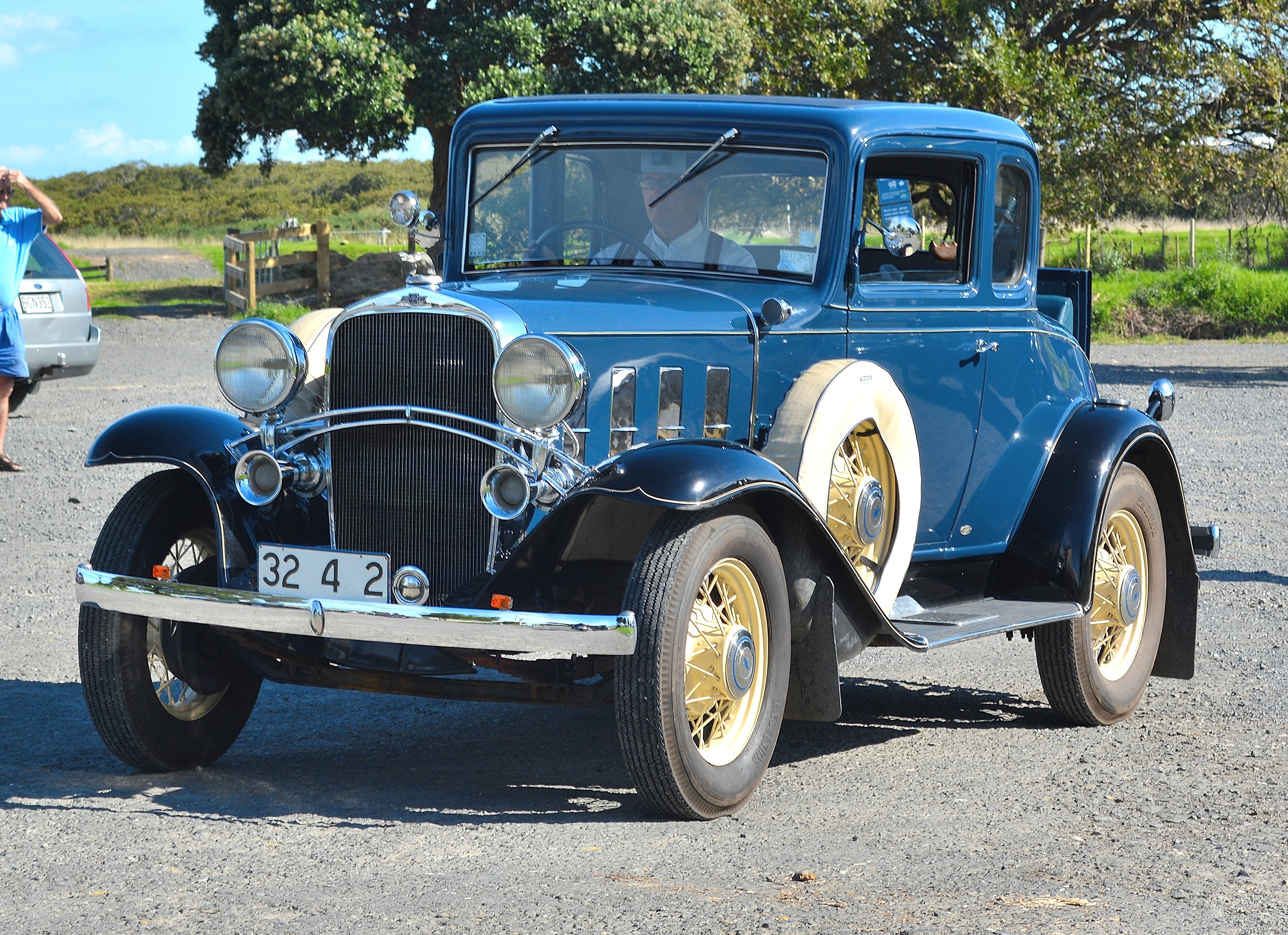 At Thames,New Zealand